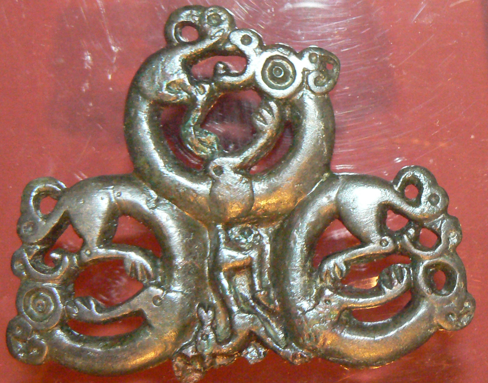 Bronze application from 5 century BC, Devetashka cave, Lovech District. Exhibit of the National History Museum of Bulgaria